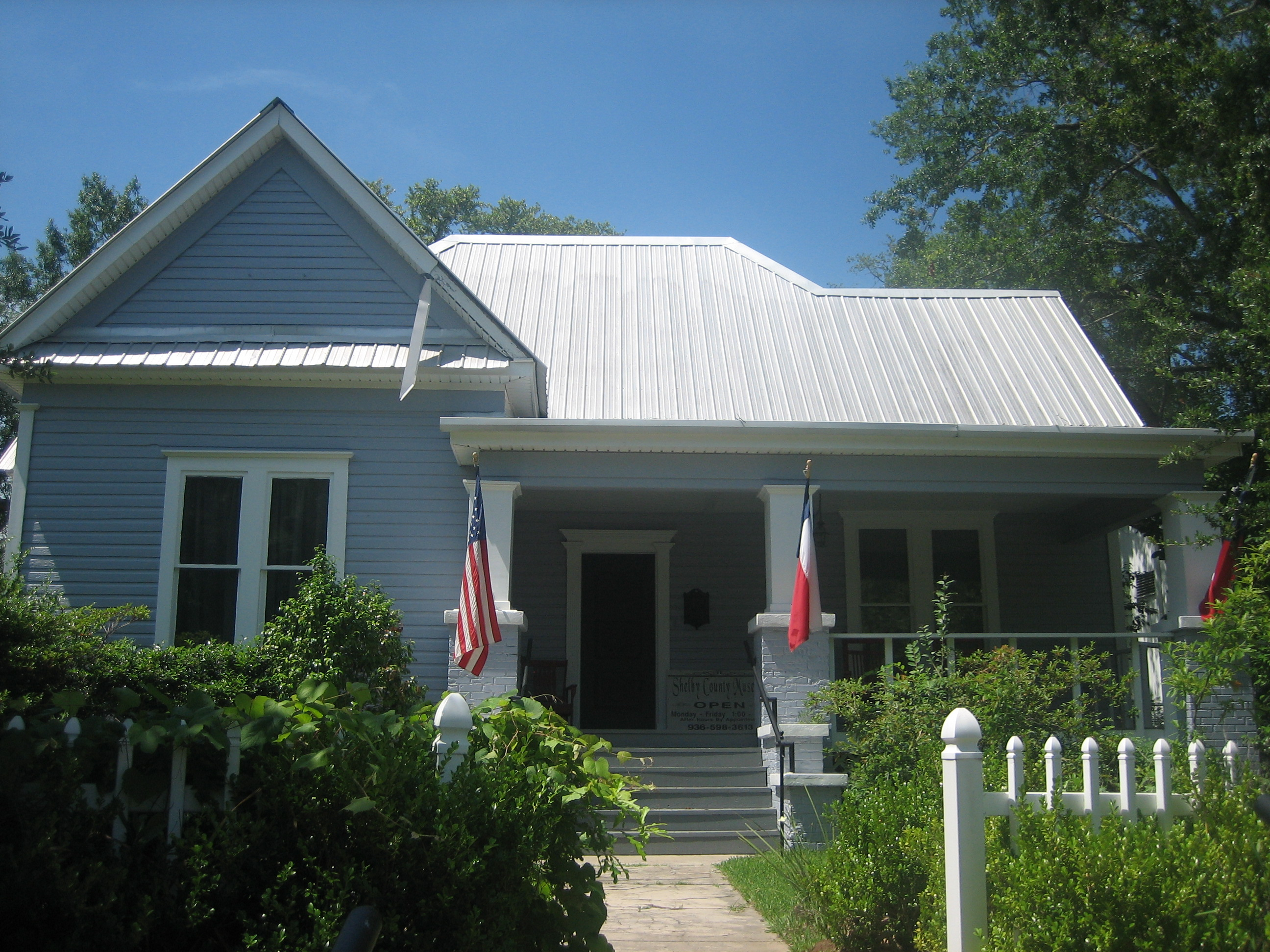 I took photo on May 27, 2009.Billy Hathorn (talk) 15:52, 31 May 2009 (UTC)